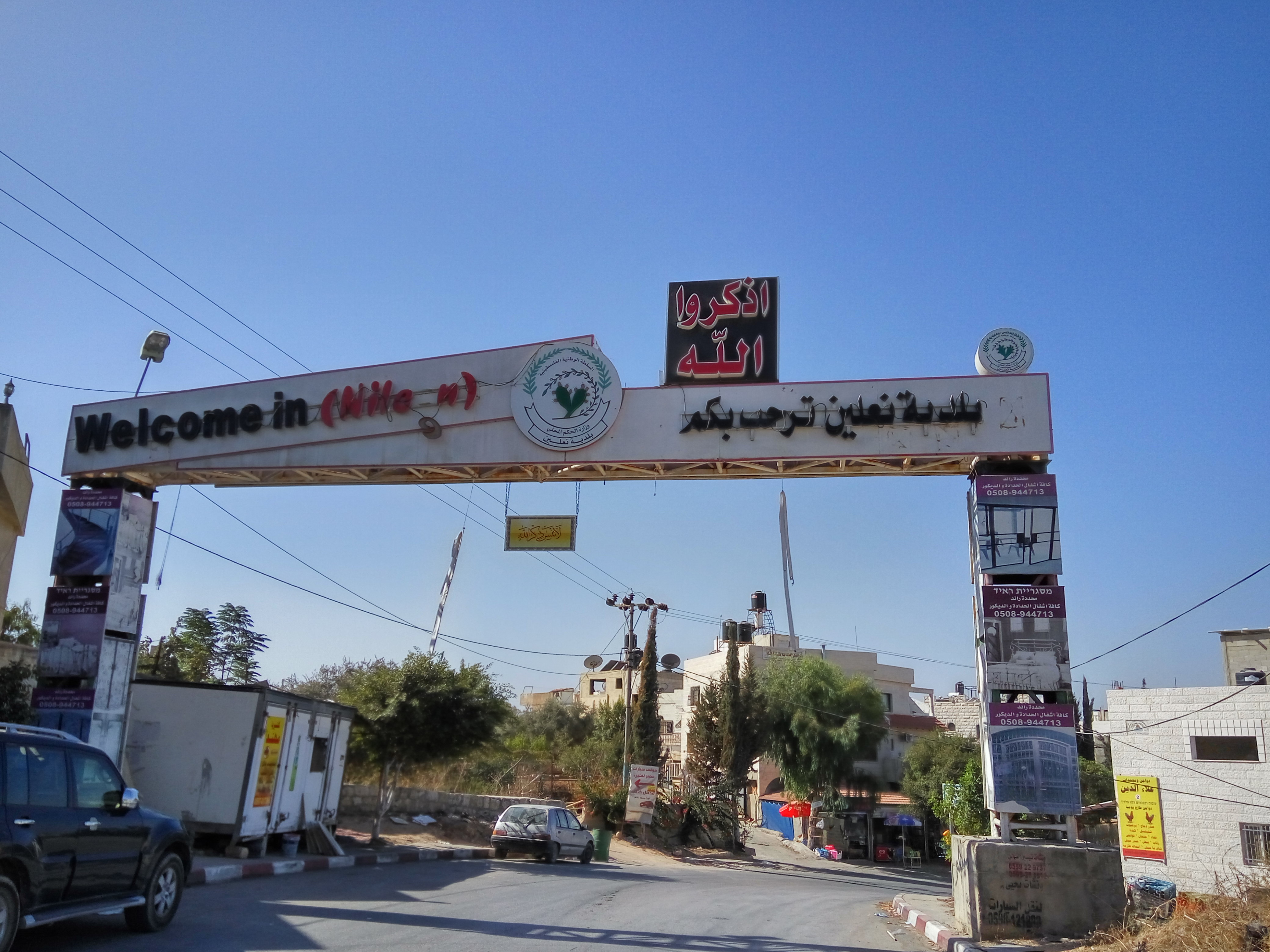 Entrance to ni'ilin, October 2016